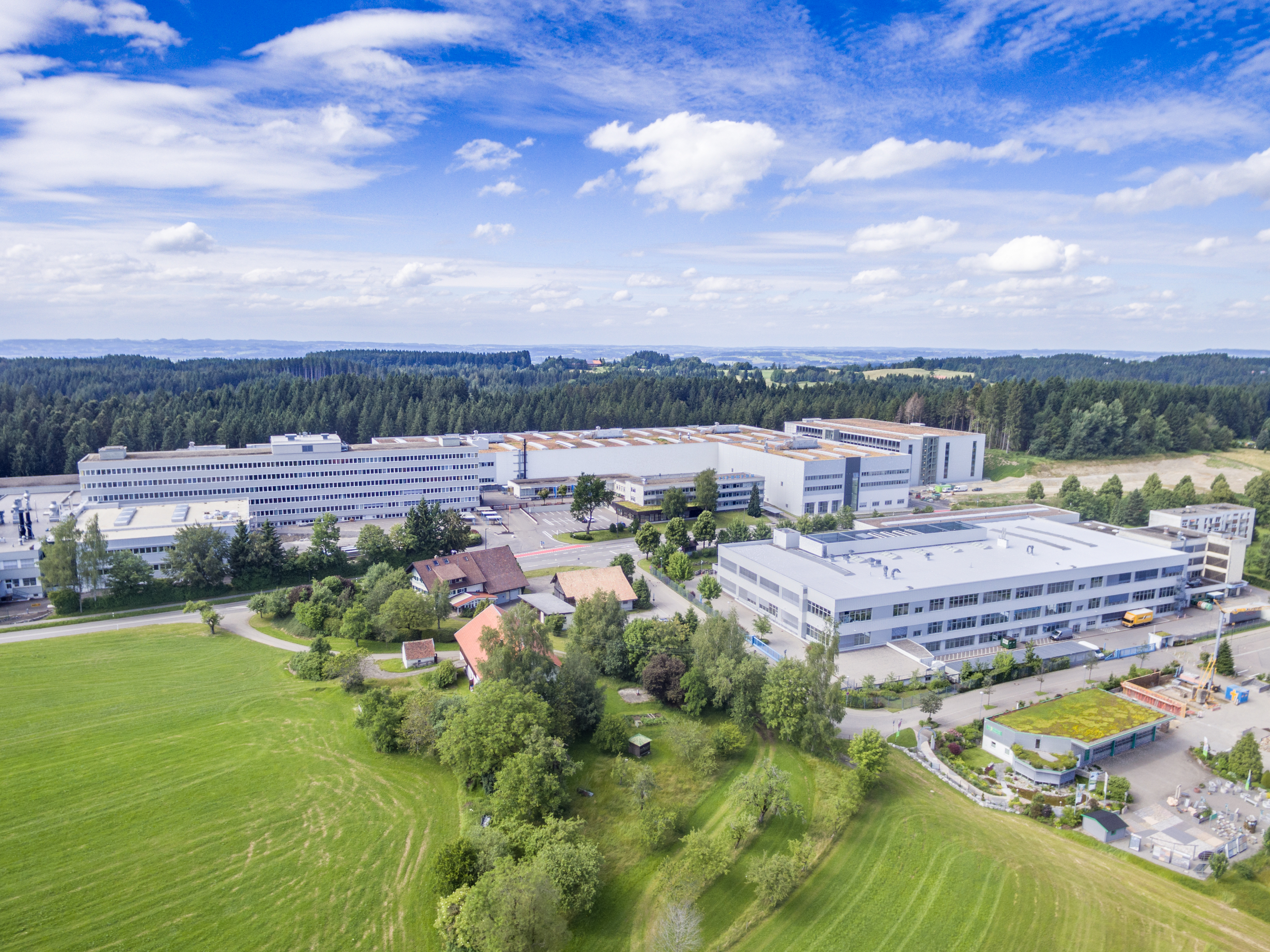 Liebherr Aerospace Plant in Lindenberg